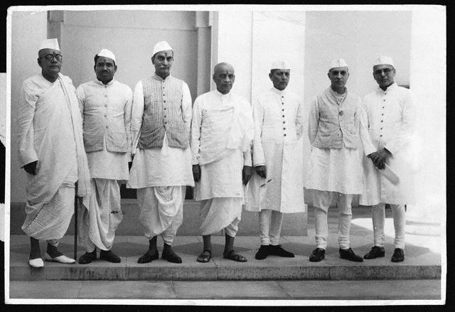 Government officials outside the Council Room in the Viceroy's House, New Delhi, shortly before their swearing-in ceremony. (L to R) Sarat Chandra Bose, Jagjivan Ram, Dr. Rajendra Prasad, Sardar Vallabhbhai Patel, Asaf Ali, Jawaharlal Nehru, and Syed Ali Zaheer.